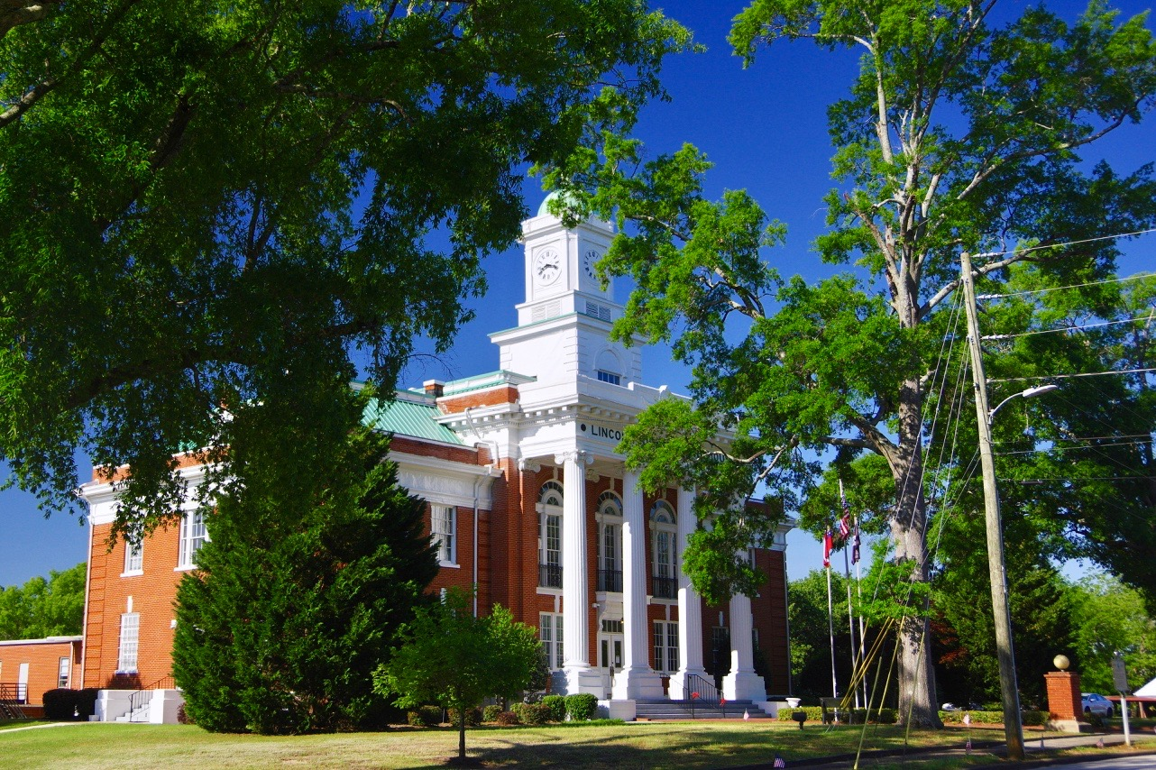 Lincoln County Courthouse in Lincolnton, Georgia, United States